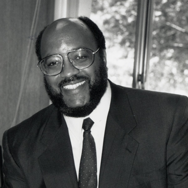 Elwyn Lee, Vice President of Student Affairs; Vice Chancellor